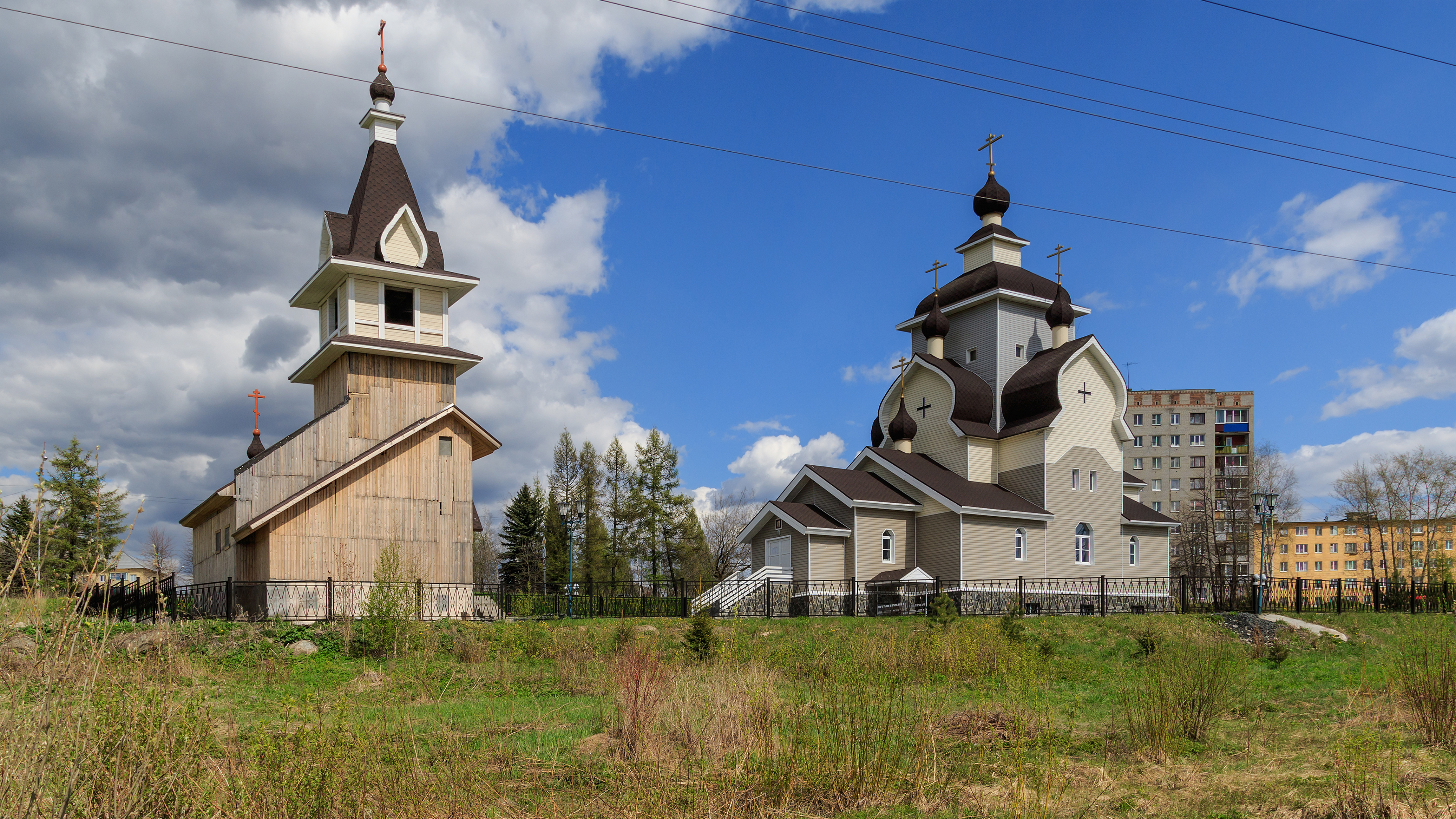 Church of the Nativity of St. Mary in Kondopoga, Republic of Karelia (Russia).